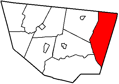 Map of Sullivan County with township and municipal bondaries is taken from US Census website [1] and modified by User:Ruhrfisch in August 2005. My modifications licensed under the GNU Free Documentation License. Source: US Census website [2], modified by User:Ruhrfisch